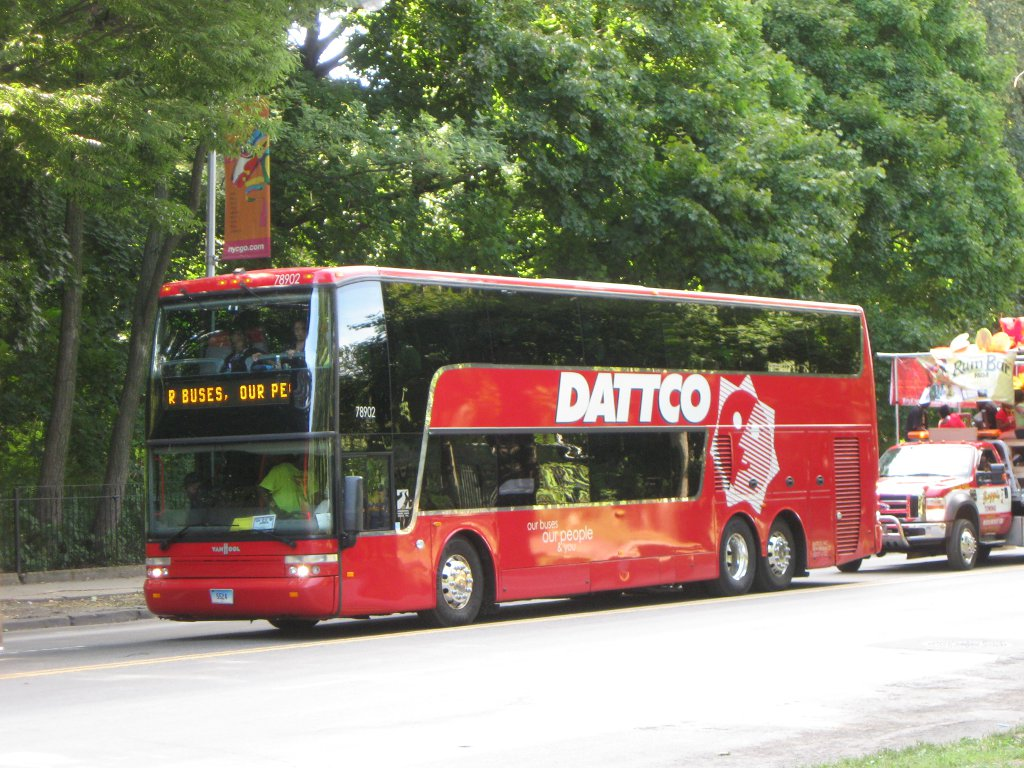 DATTCO Van Hool double-decker TD925 Astromega #78902 operates as a collector vehicle for marchers with a float just ahead of it (not shown, but just beyond the left edge of the picture) in the 2002 West Indian Day Parade.